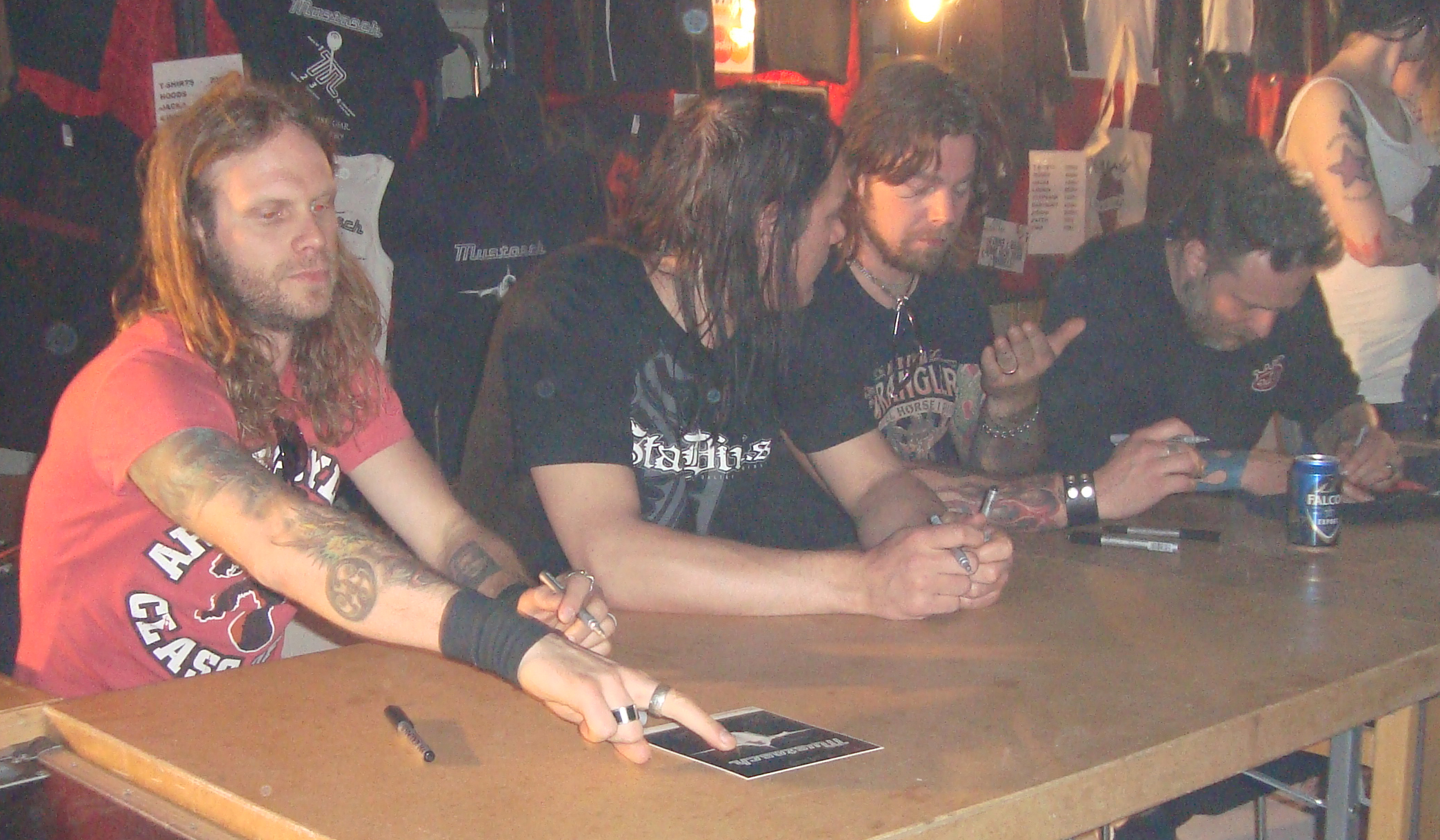 Mustasch on Rockweekend on tour, Gärdeshov, Sundsvall, Sweden